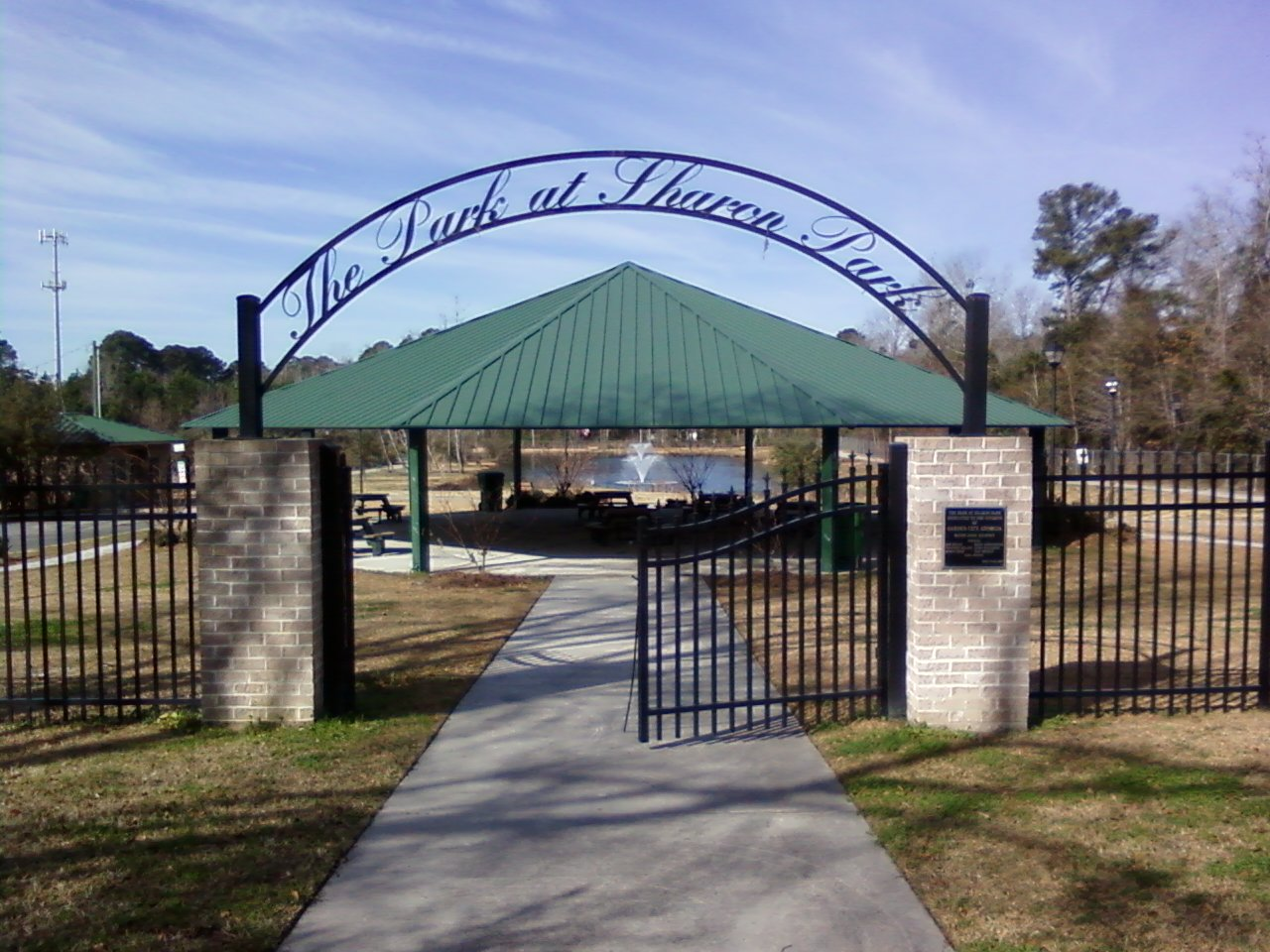 The Park at Sharon Park in Garden City, Georgia